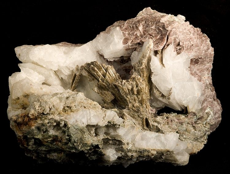 Clinozoisite, Quartz, Axinite-(Fe) Locality: Geigenberg Quarry, Kirchham, Maishofen, Saalfelden, Salzburg, Austria (Locality at ) Size: 11.5 x 8.1 x 5.7 cm. A fine cabinet combination piece from the well-known, but abandoned Geigenberg Quarry of Austria. The quarry was mined for diabase. Two, fan-like clusters of lustrous, parallel-growth, olive-green clinozoisite blades are nestled in the center of a large vug and are surrounded and accented by milky quartz and light purple axinite, as distinct blades or in massive form. Ex. Rolf Wein Collection, an Alpine specialist and purchased in 1968.